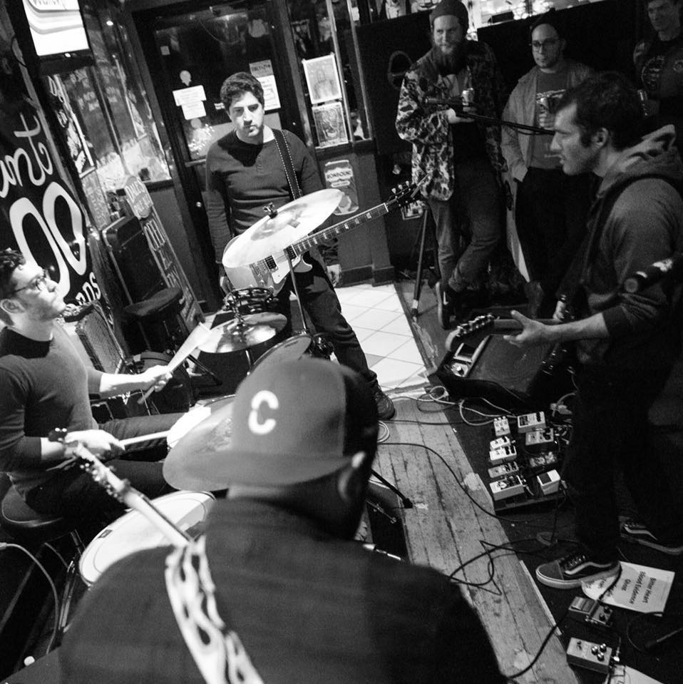 Delicate Flowers at Stosh's 2018